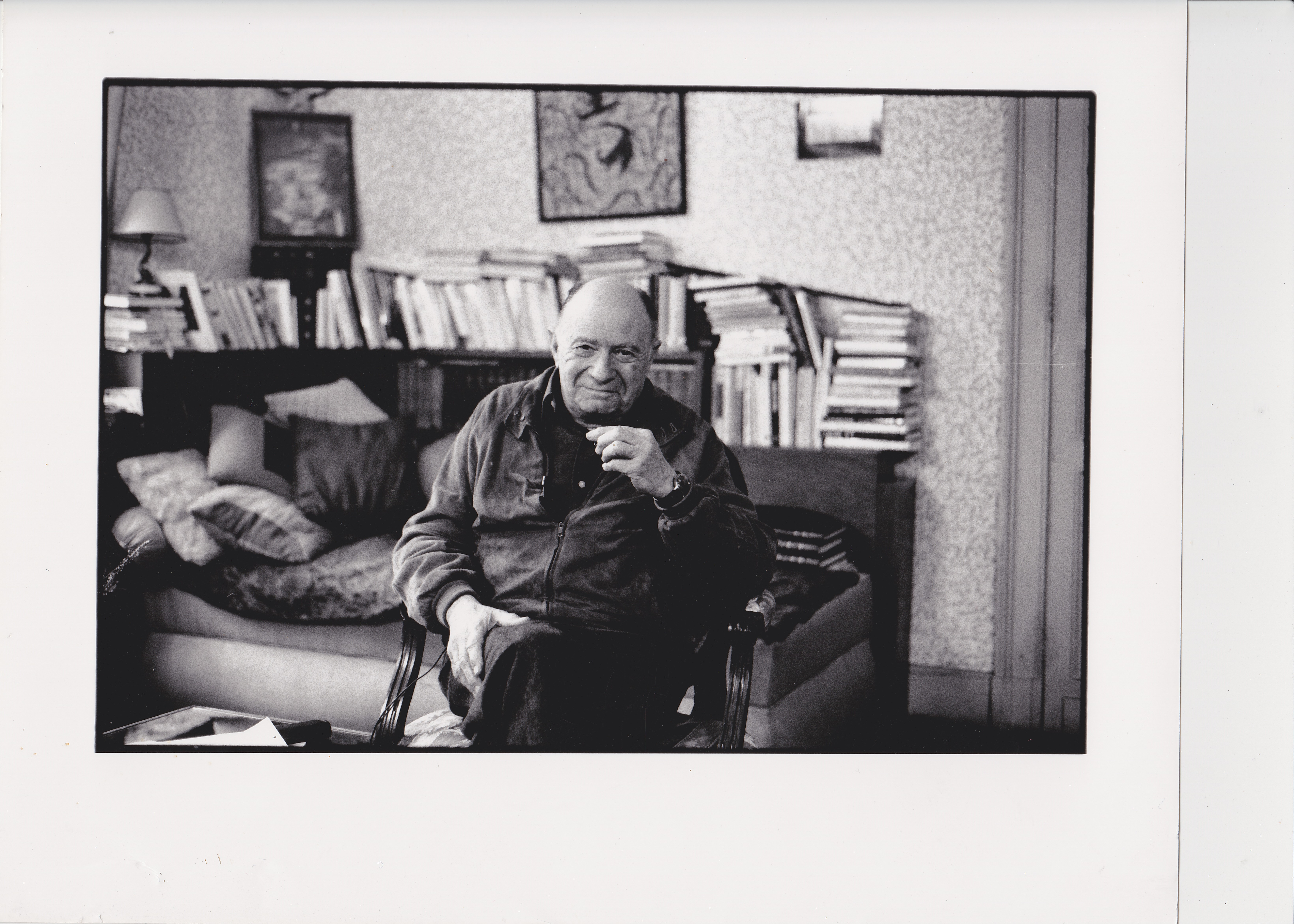 French sociologist and technology critique Jacques Ellul in his house in Pessac, France. Photo taken as part of the filming of the documentary "The Betrayal by Technology" by ReRun Productions, Amsterdam, Netherlands.